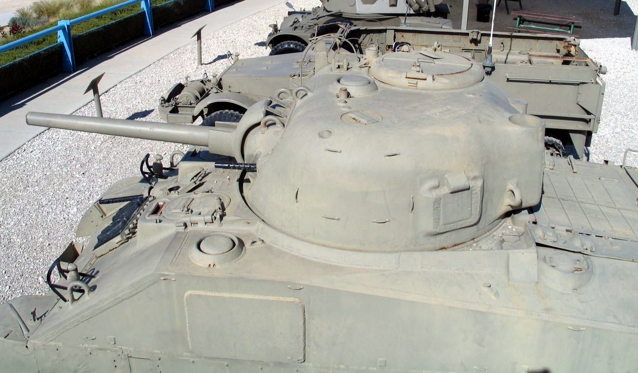 Description: M4 Sherman medium tank in Yad la-Shiryon Museum, Israel. The tank seems to combine a hull of early production M4A4 and an engine of M4A2. Remark: It is possible that it is an ex-Egyptian Army Sherman tank probably captured in 1956. The Egyptian Army re-engined most of its ex-British Sherman Vs with the twin Diesel engines of the M4A2/Sherman III variant. Source: Photo by me, User:Bukvoed.